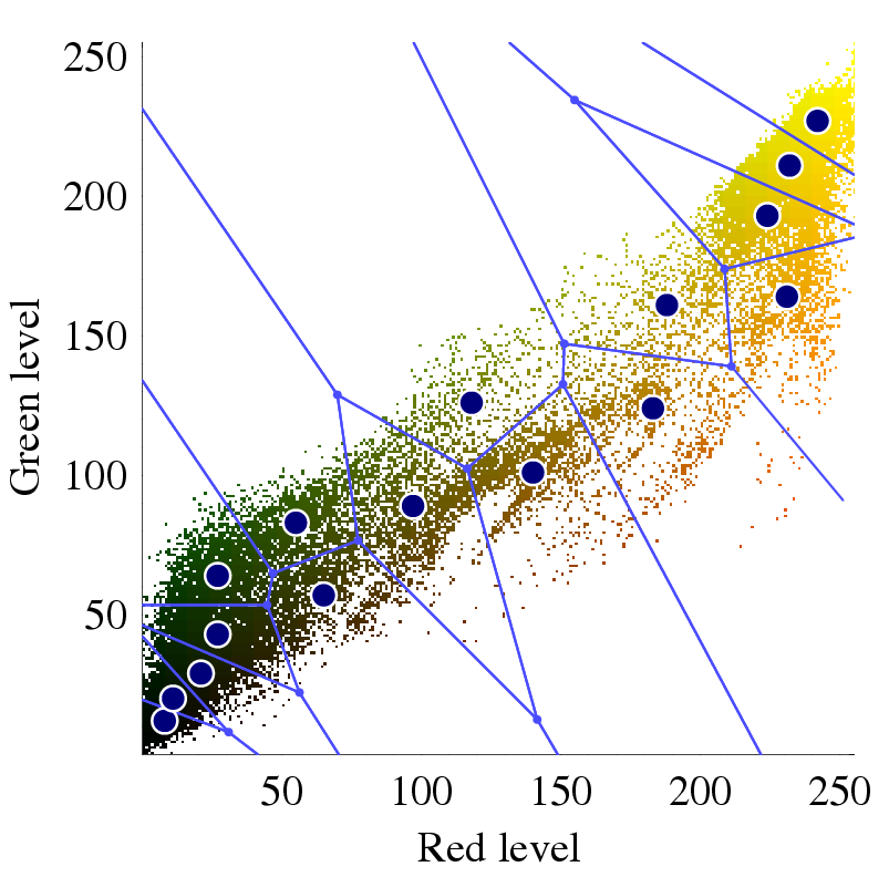 Shows the 2D colour space of Image:Rosa Gold Glow 2 small noblue.png, along with an optimized palette generated by Photoshop via standard methods (the blue dots) and the Voronoi regions for each palette entry. Made by User:Dcoetzee using Mathematica, Photoshop, and custom tools.